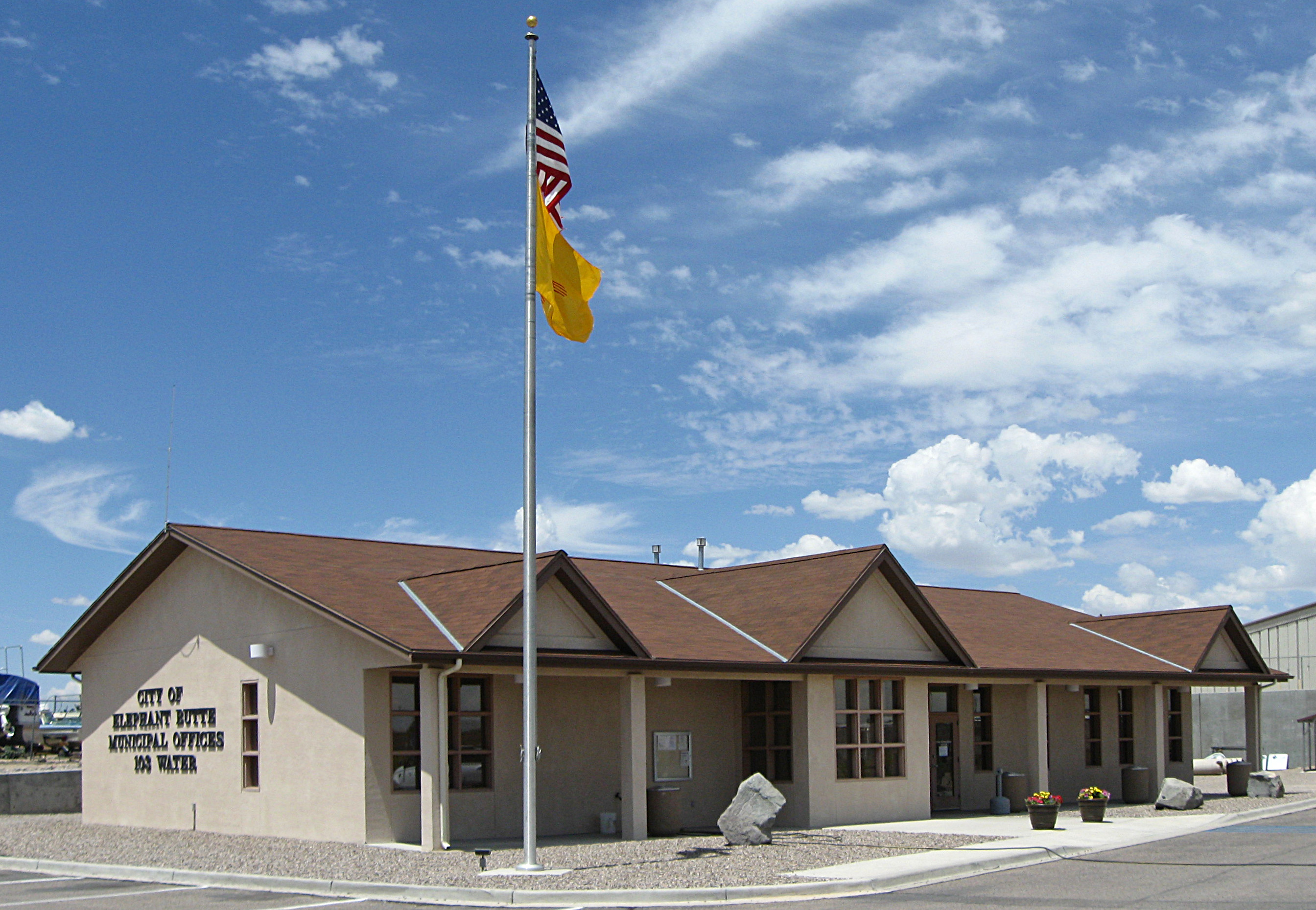 City of Elephant Butte (New Mexico) Municipal Offices, locate at 103 Water Avenue in Elephant Butte, New Mexico